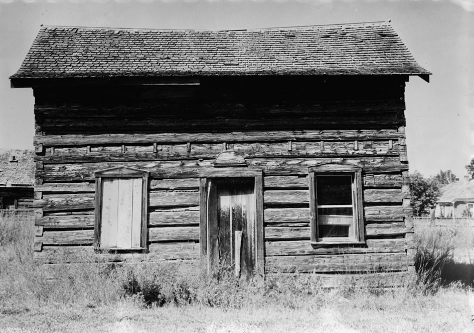 Front of St. Mary's Pharmacy, located along North Avenue in Stevensville, Ravalli County, Montana, United States. Together with the attached St. Mary's Church, the pharmacy is listed on the National Register of Historic Places as St. Mary's Church and Pharmacy.